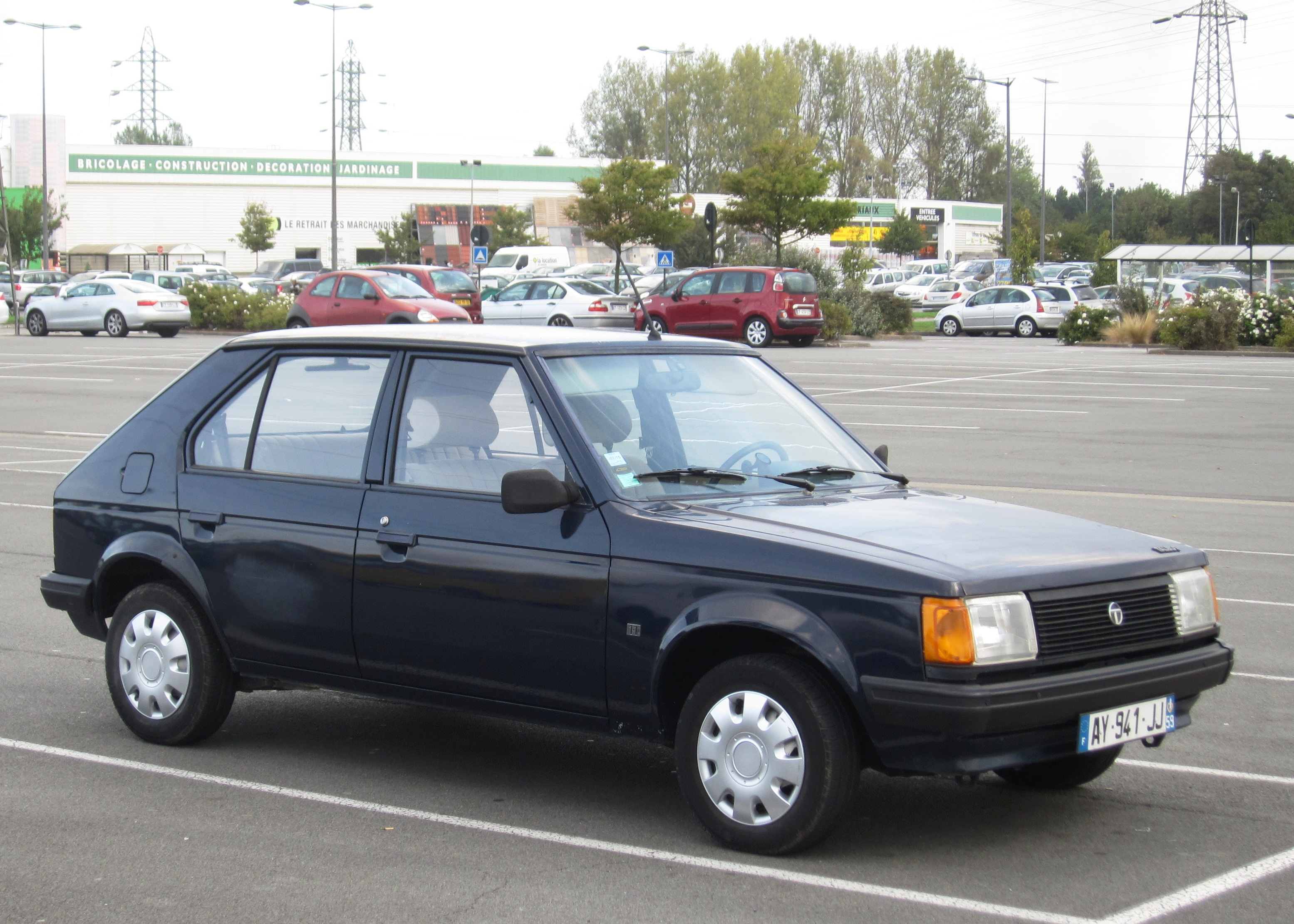 Talbot Horizon (version 1982-1985)